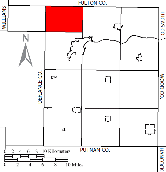 Made by the US Census and modified by myself